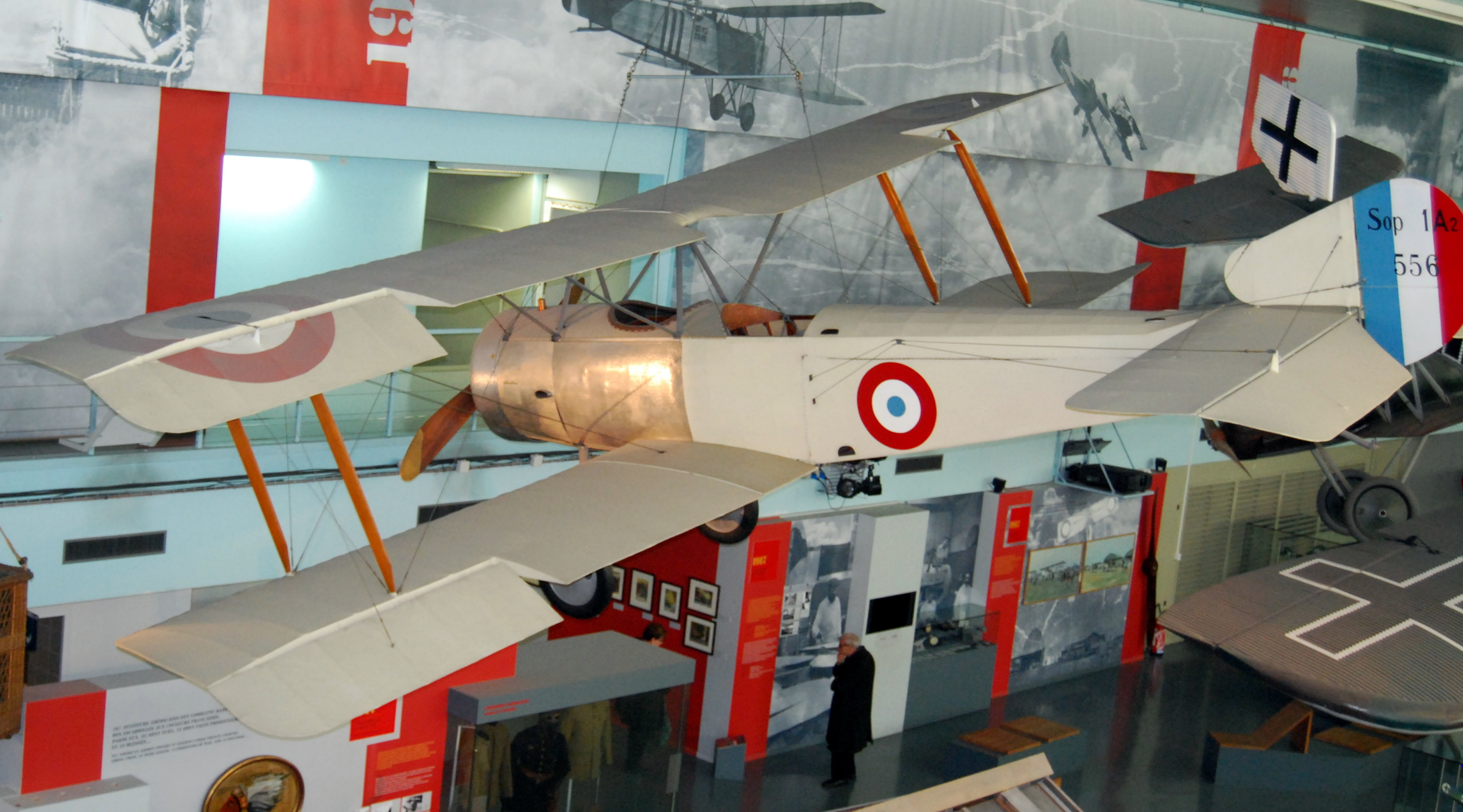 Photo ref; DSC1127-2012